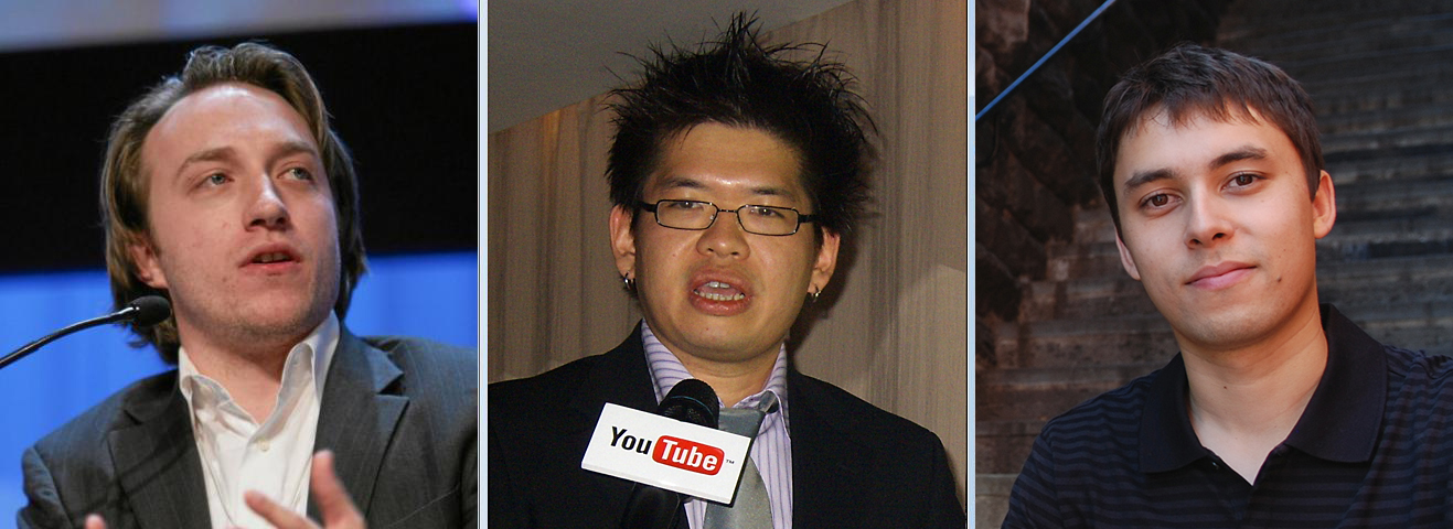 Composite image of YouTube's founders; from left to right: Chad Hurley, Steve Chen, and Jawed Karim.